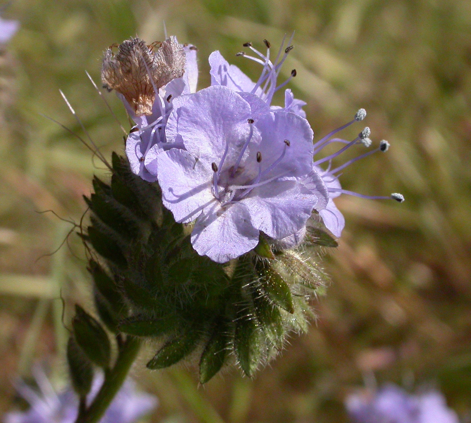 Phacelia tanacetifolia In the Voorhis Ecological Reserve at California State Polytechnic University, Pomona, California.